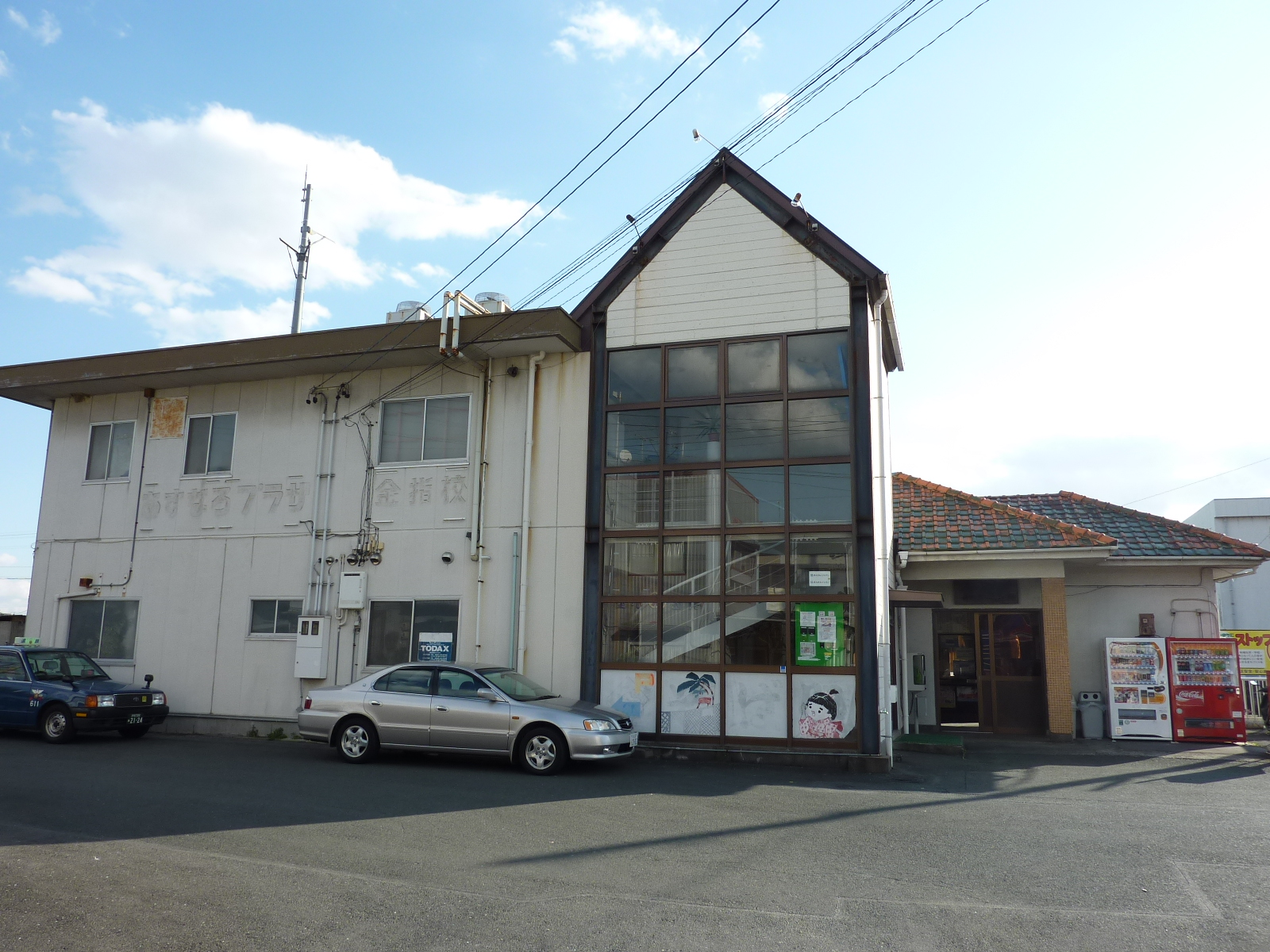 Kanasashi Station on Tenryu Hamanako Line. (1033-2,Inasachokanasashi,Kita-ku,Hamamatsu-shi,Shizuoka-ken,JAPAN)